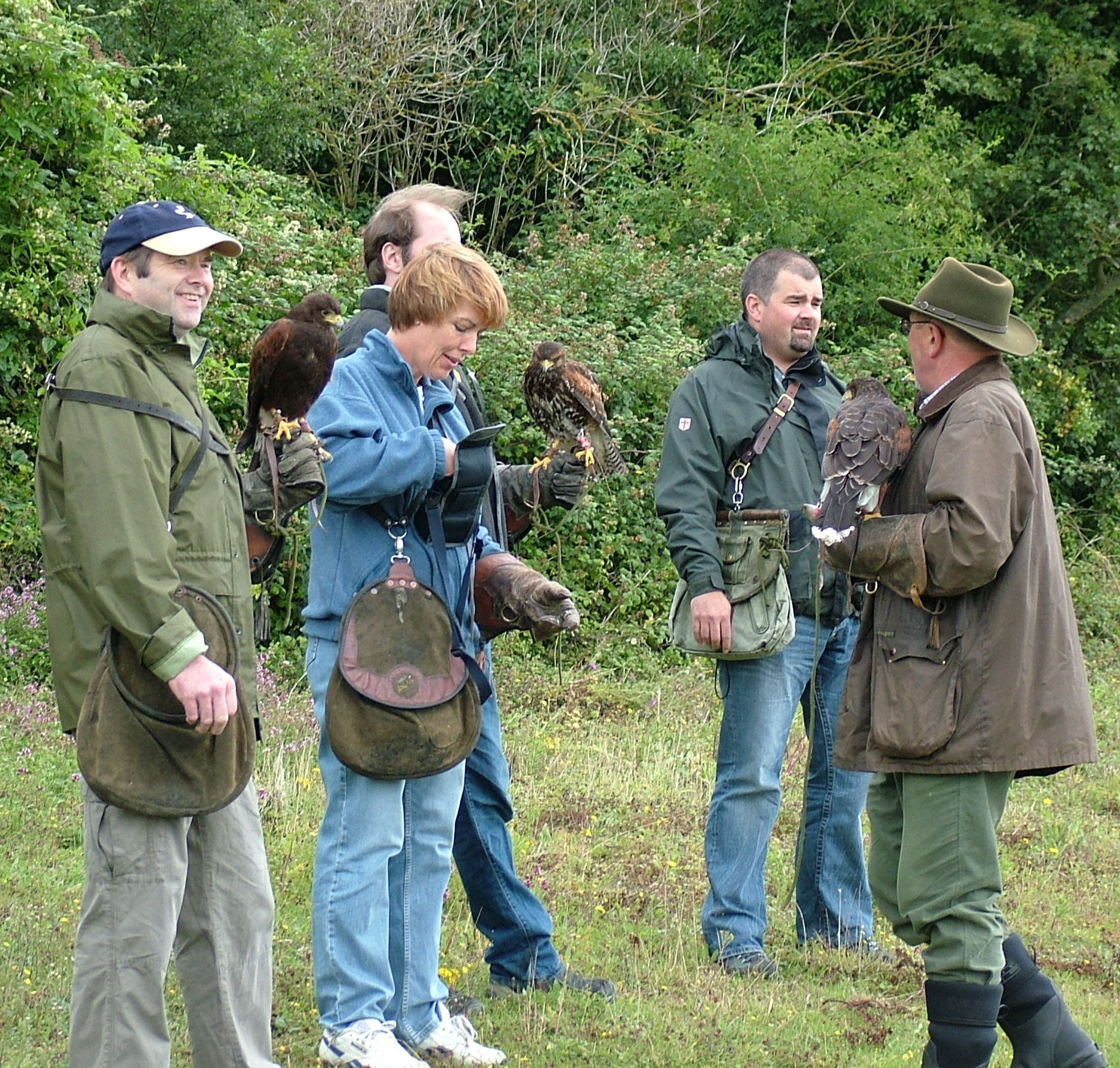 People learning falconry with Harris' Hawks (Parabuteo unicinctus).